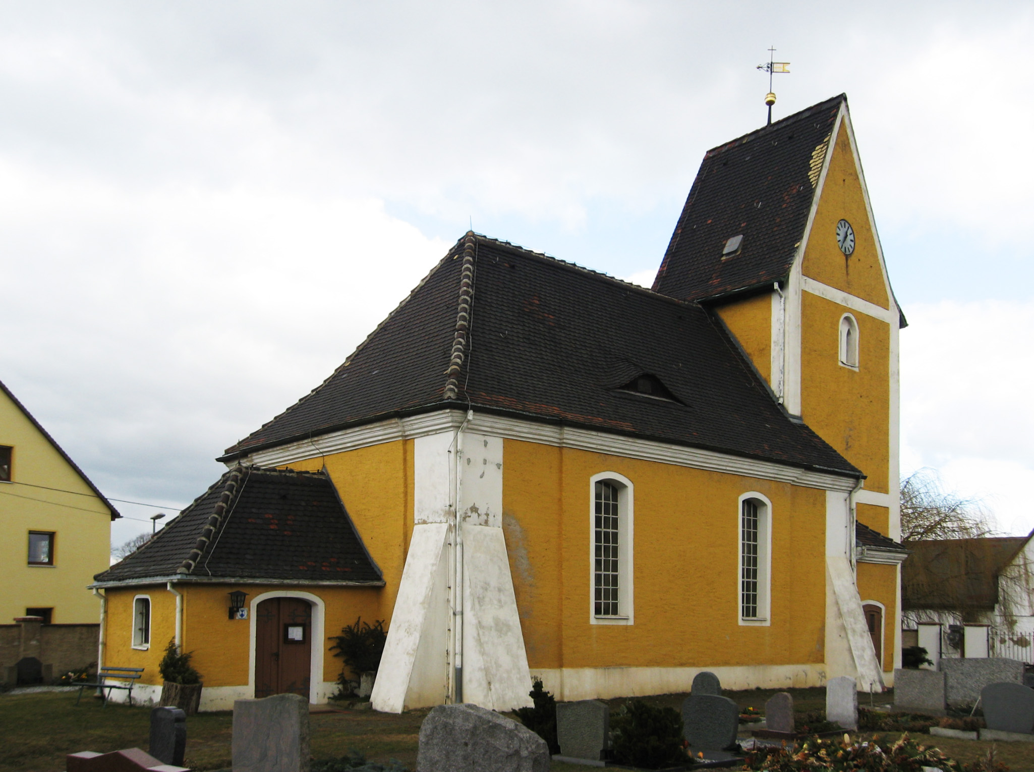 Church Leipzig-Althen, Althener Anger